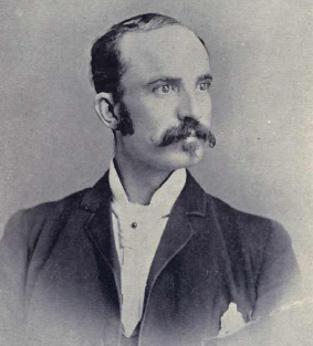 Theodore Arthur Burrows Source: The Canadian album : men of Canada; or, Success by example, in religion, patriotism, business, law, medicine, education and agriculture; containing portraits of some of Canada's chief business men, statesmen, farmers, men of the learned professions, and others; also, an authentic sketch of their lives; object lessons for the present generation and examples to posterity (Volume 3) (1891-1896) Creator:Cochrane, William, 1831-1898 Creator:Hopkins, J. Castell (John Castell), 1864-1923 Publisher:Brantford, Ont. : Bradley, Garretson & Co. Date:1891-1896